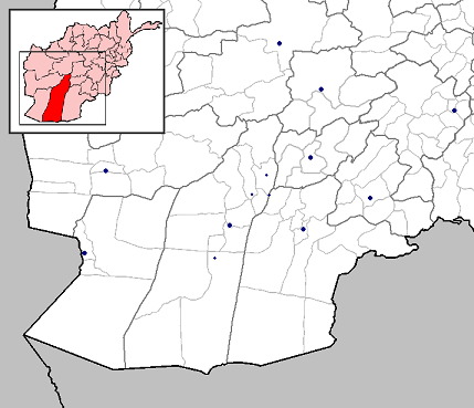 Basical Map for Operation Achilles